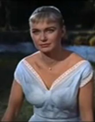 Cropped screenshot of Joanne Woodward from the trailer for the film The Long, Hot Summer